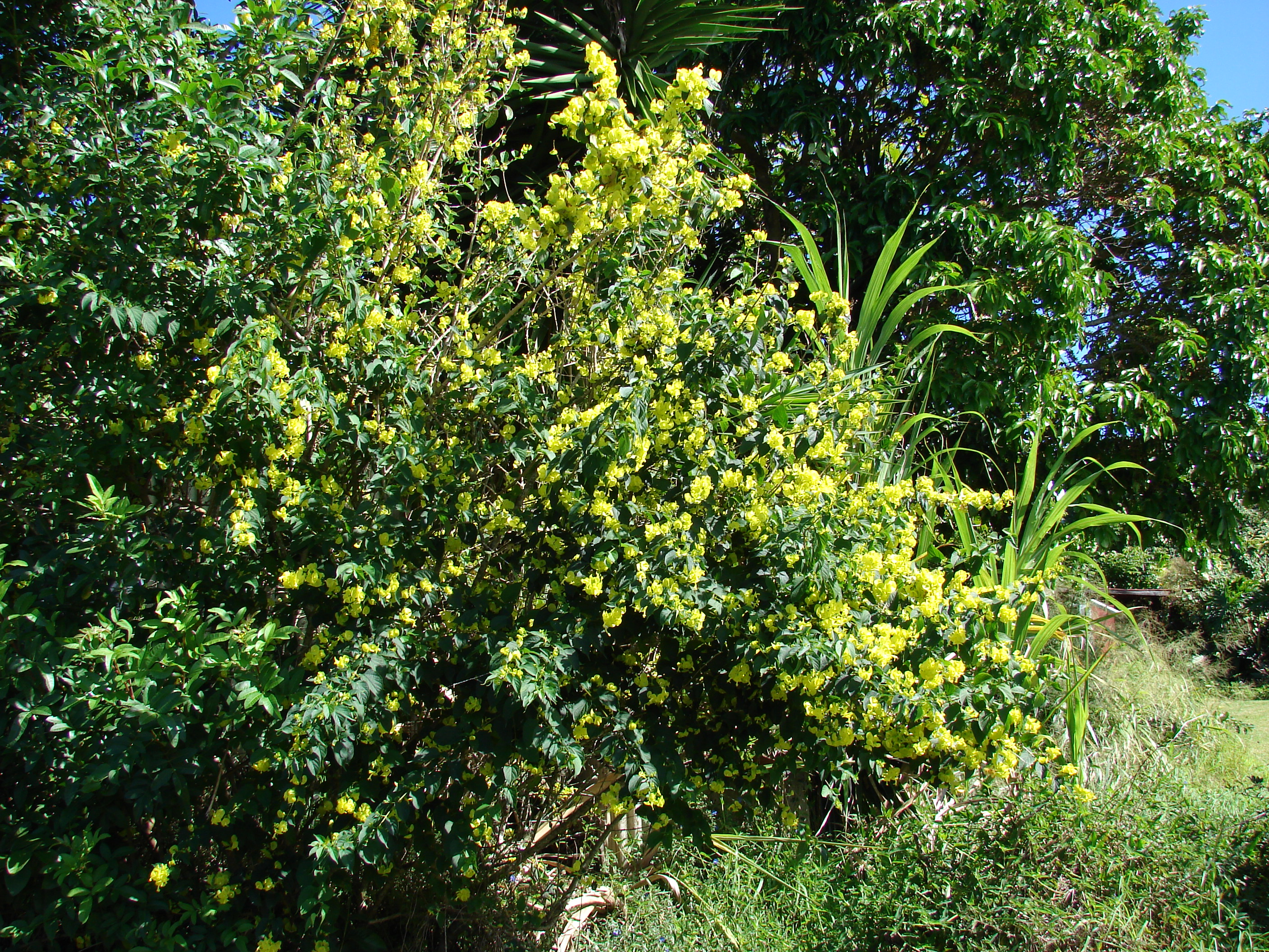 Holmskioldia sanguinea (form citrinia habit). Location: Maui, Haiku